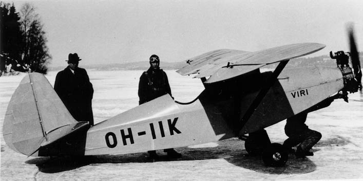 OH-IIK, the sole example of this domestic type. Photo from Eino Ritajärvi collection.